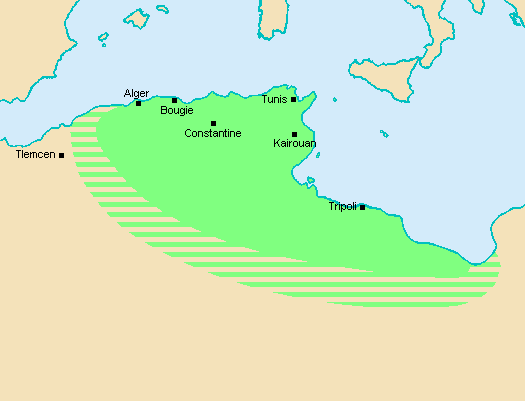 Territories under zirid control (on behalf of the Fatimid Caliphs) c. 1000CE Territory's limits based on map "Southwest Europe, 1000CE" : Zirid Emirate of Ifriqiya (Ifriqiya) , Emirate of Africa. Depends on Fatimids --(entirely) own made map by Omar-toons